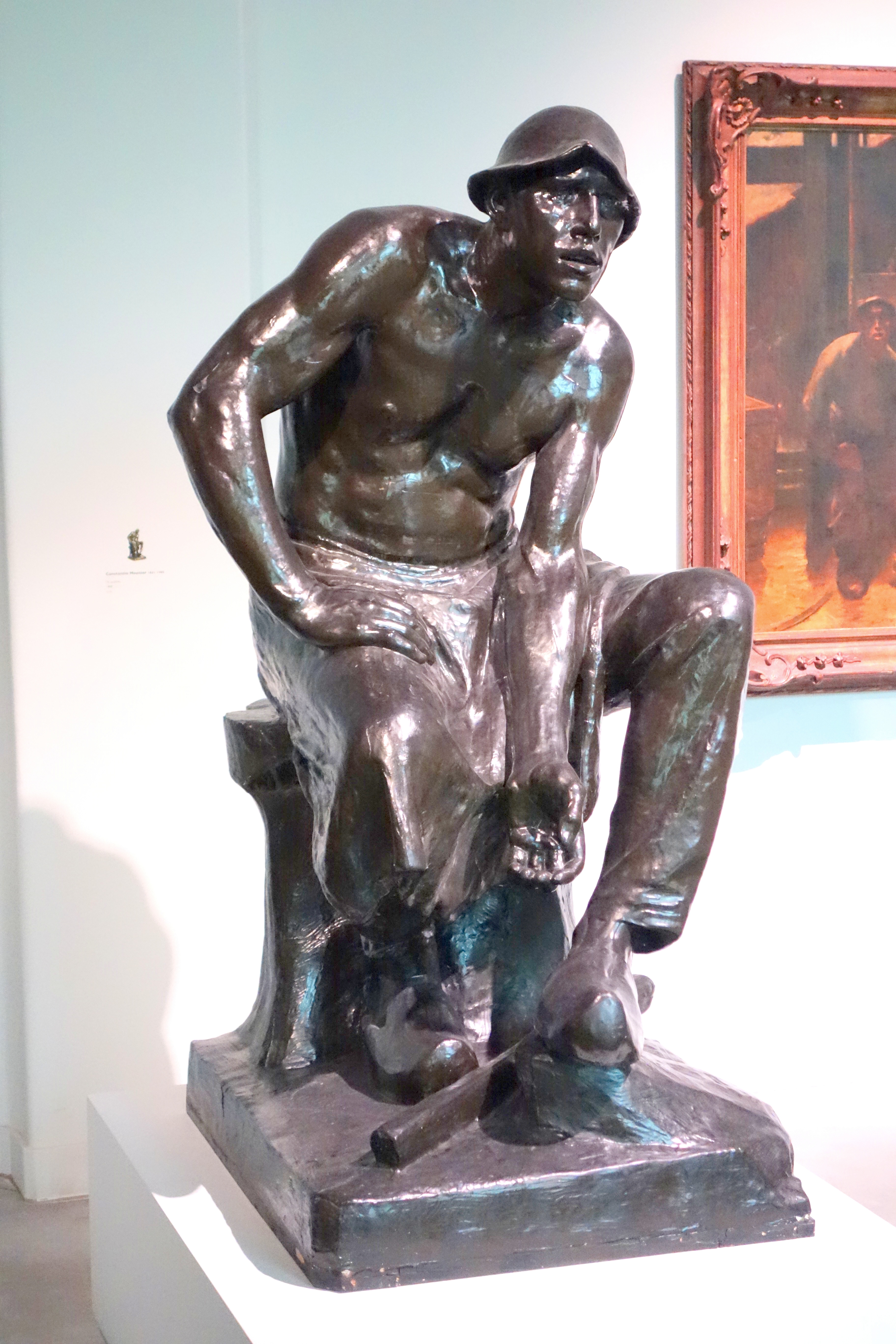 Exhibit in the Museum M - Leuven, Belgium. This artwork is in the public domain because the artist died more than 70 years ago.